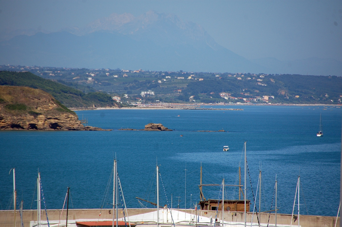 Vasto